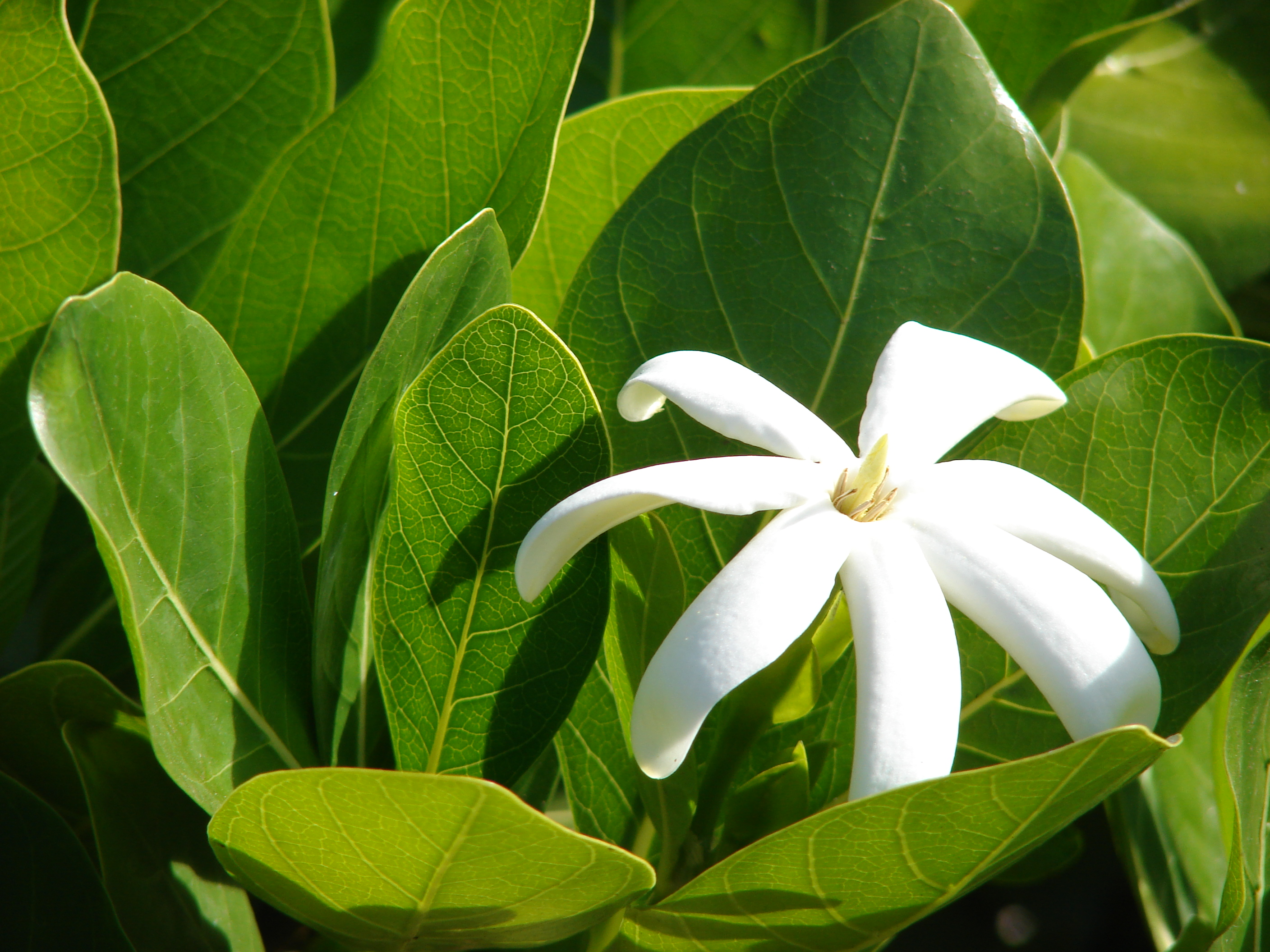 Gardenia taitensis (flower and leaves). Location: Maui, Lahaina Aquatic Center